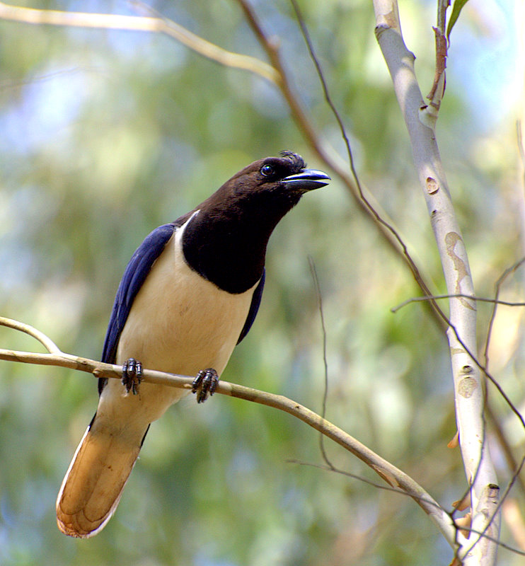 Cyanocorax_cristatellus